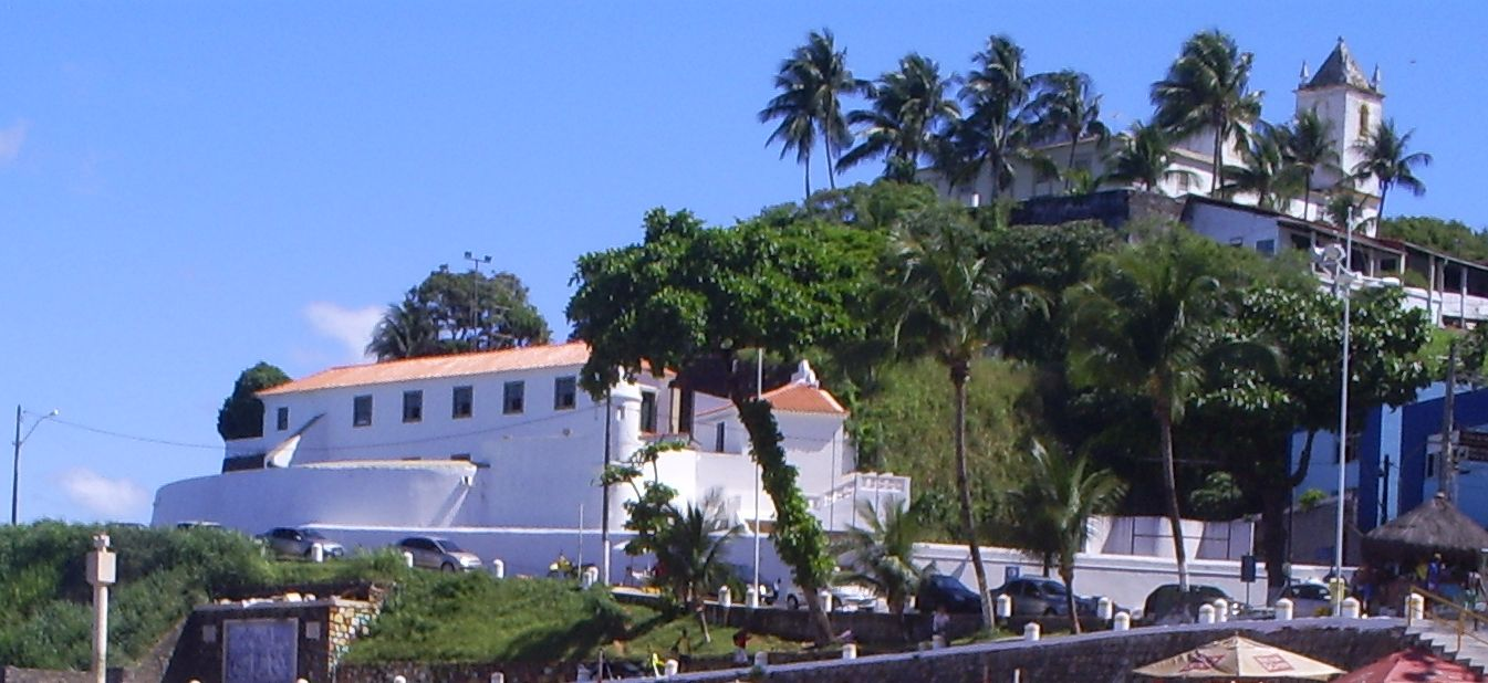 Salvador, Bahia, Brazil: Fortress of Saint Diogo and Church of Saint Antony